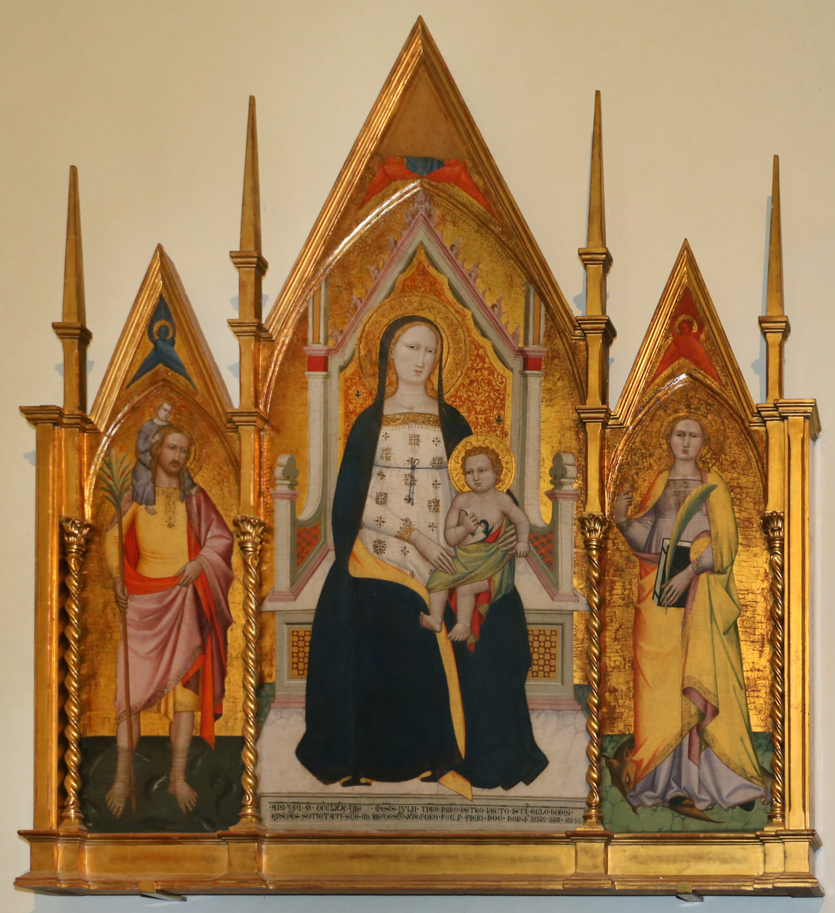 San Cristoforo in Perticaia